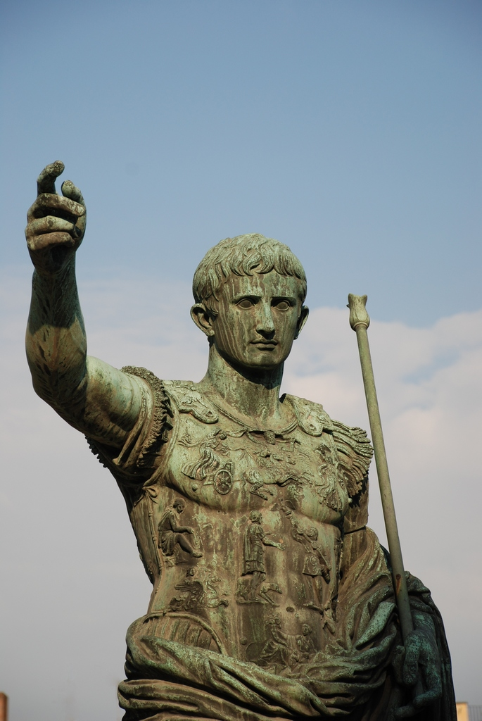 Statue of Augustus - front